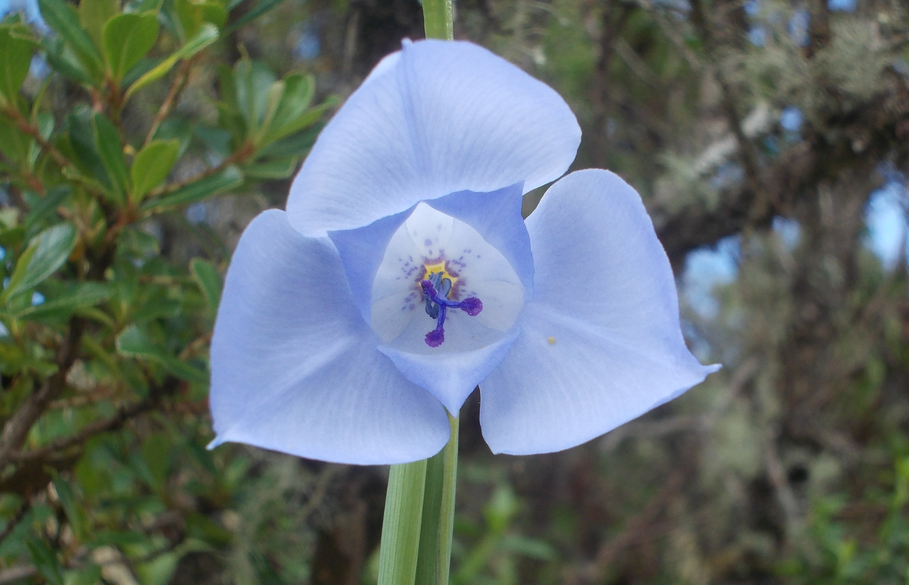 Blue flower of Gelasine coerulea (syn Alophia sellowiana), on Itatiaia National Park, Rio de Janeiro - Brazil